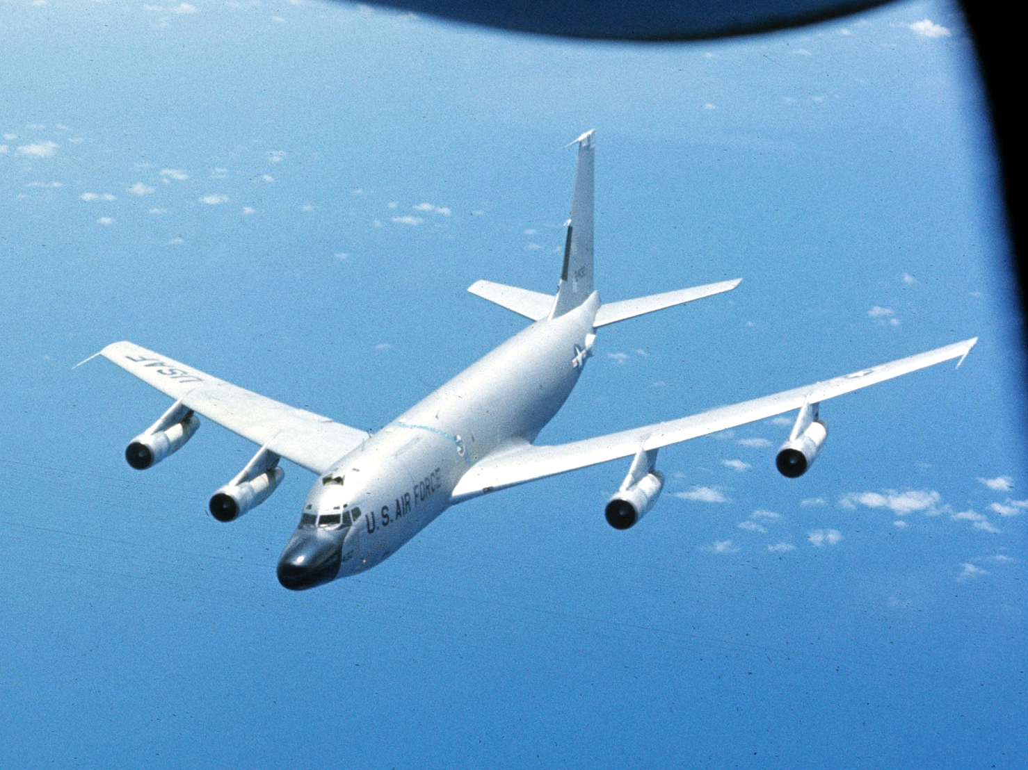 A U.S. Air Force Boeing RC-135M Rivet Card (s/n 62-4132) in flight over South East Asia. The RC-135M was an interim type with more limited electronic intelligence capability than the RC-135C but with extensive additional communications intelligence capability. For most of the Southeas Asia War, unarmed RC-135s maintained a continuous, 24-hour orbit near the border of North Vietnam. They were operated by the 82nd Reconnaissance Squadron during the Vietnam War from Kadena Air Base, Okinawa (Japan), gathering signals intelligence over the Gulf of Tonkin and Laos with the program name "Combat Apple" (originally "Burning Candy"). There were six RC-135M aircraft, 62-4131, 62-4132, 62-4134, 62-4135, 62-4138 and 62-4139, all of which were later modified to and continue in active service as RC-135W Rivet Joint. 62-4132 surpassed the 50,000 flying-hour mark in March 2008.